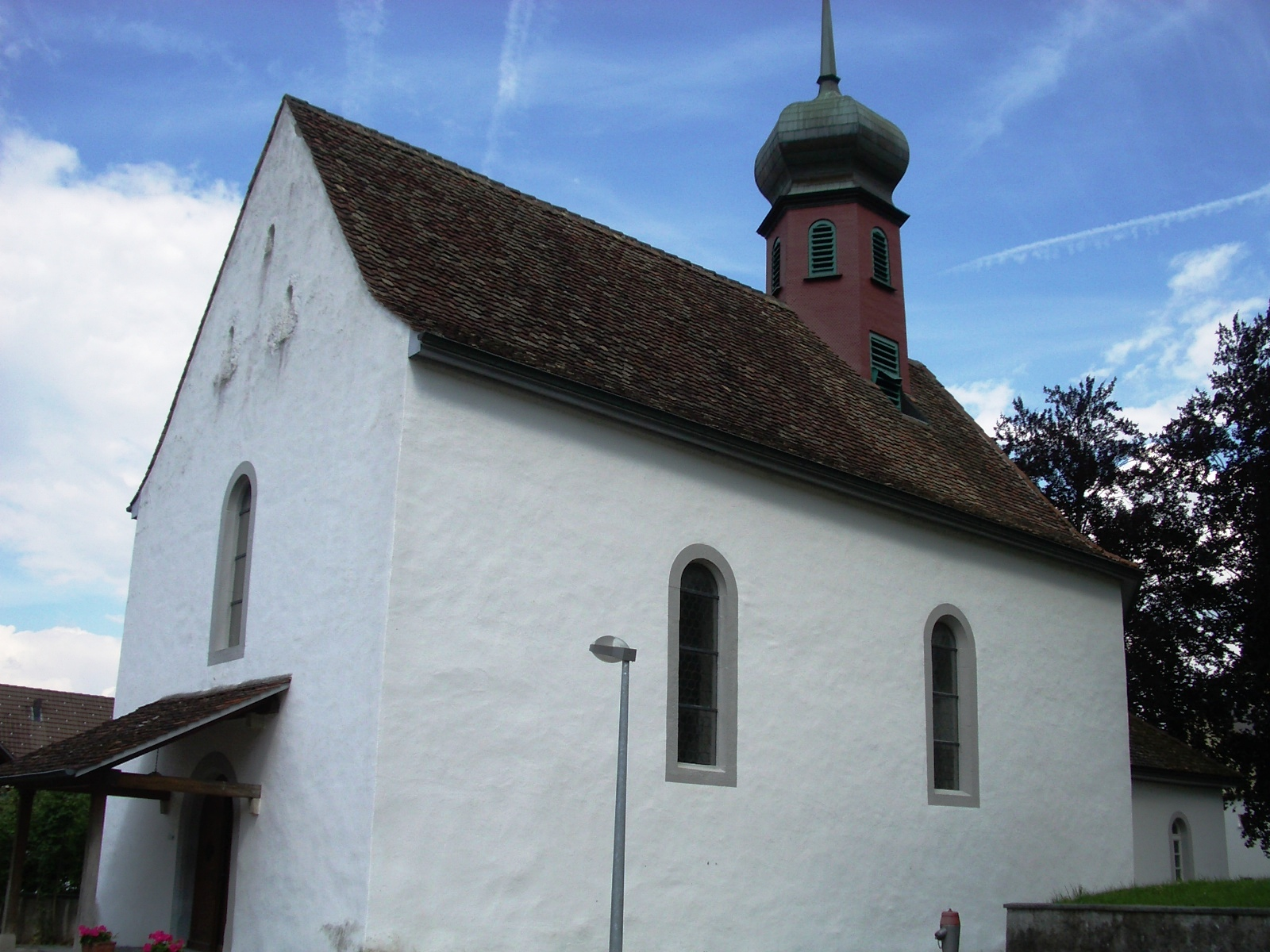 Church in Spreitenbach AG, Switzerland